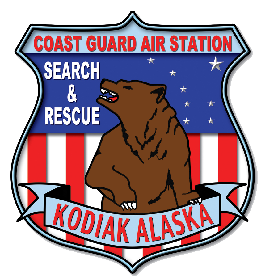 AIRSTA Kodiak unit patch